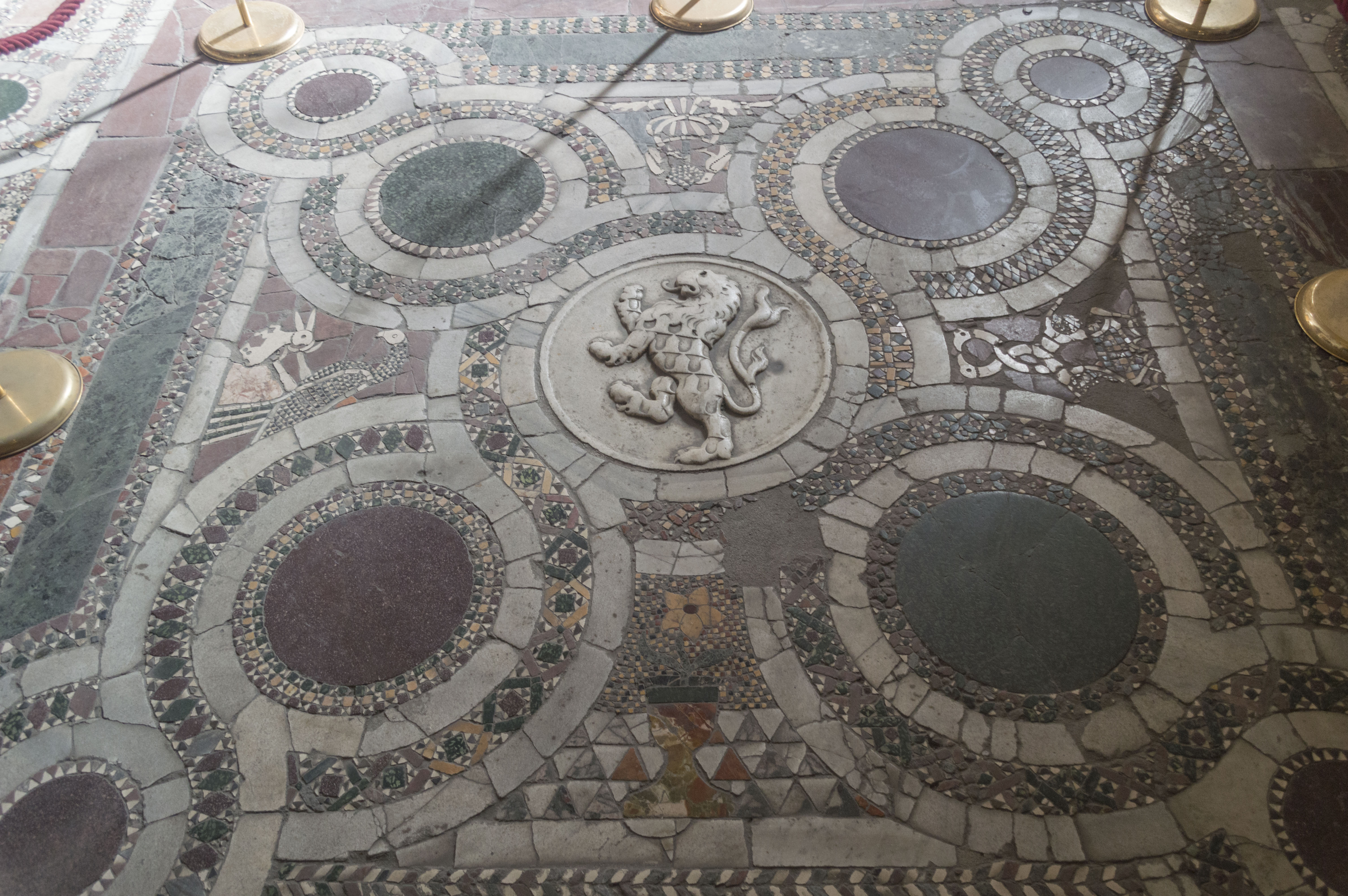 Cappella Capece Minutolo in Naples Cathedral